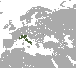 Valais Shrew (Sorex antinorii) range